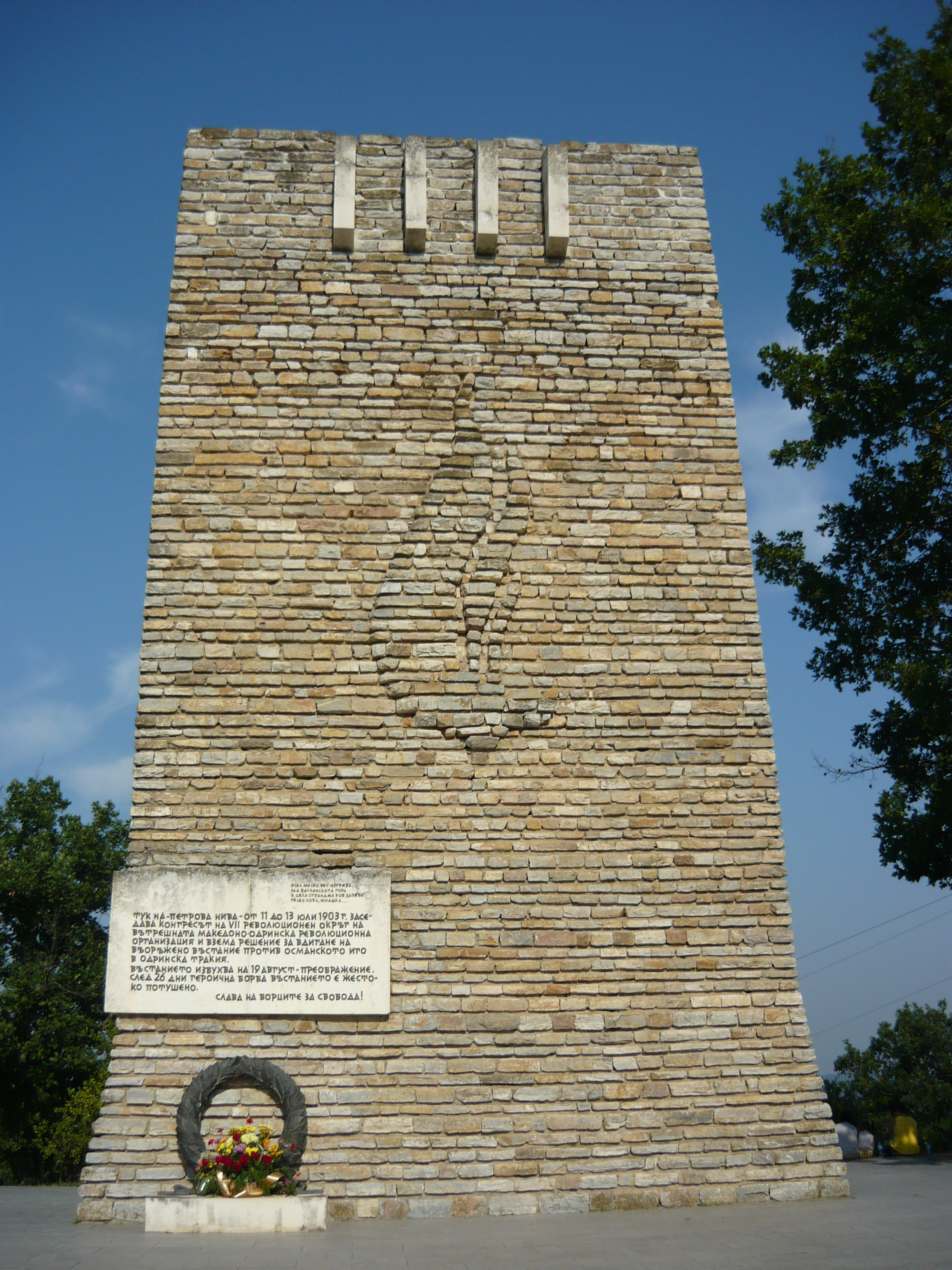 Memorial of Petrova Niva